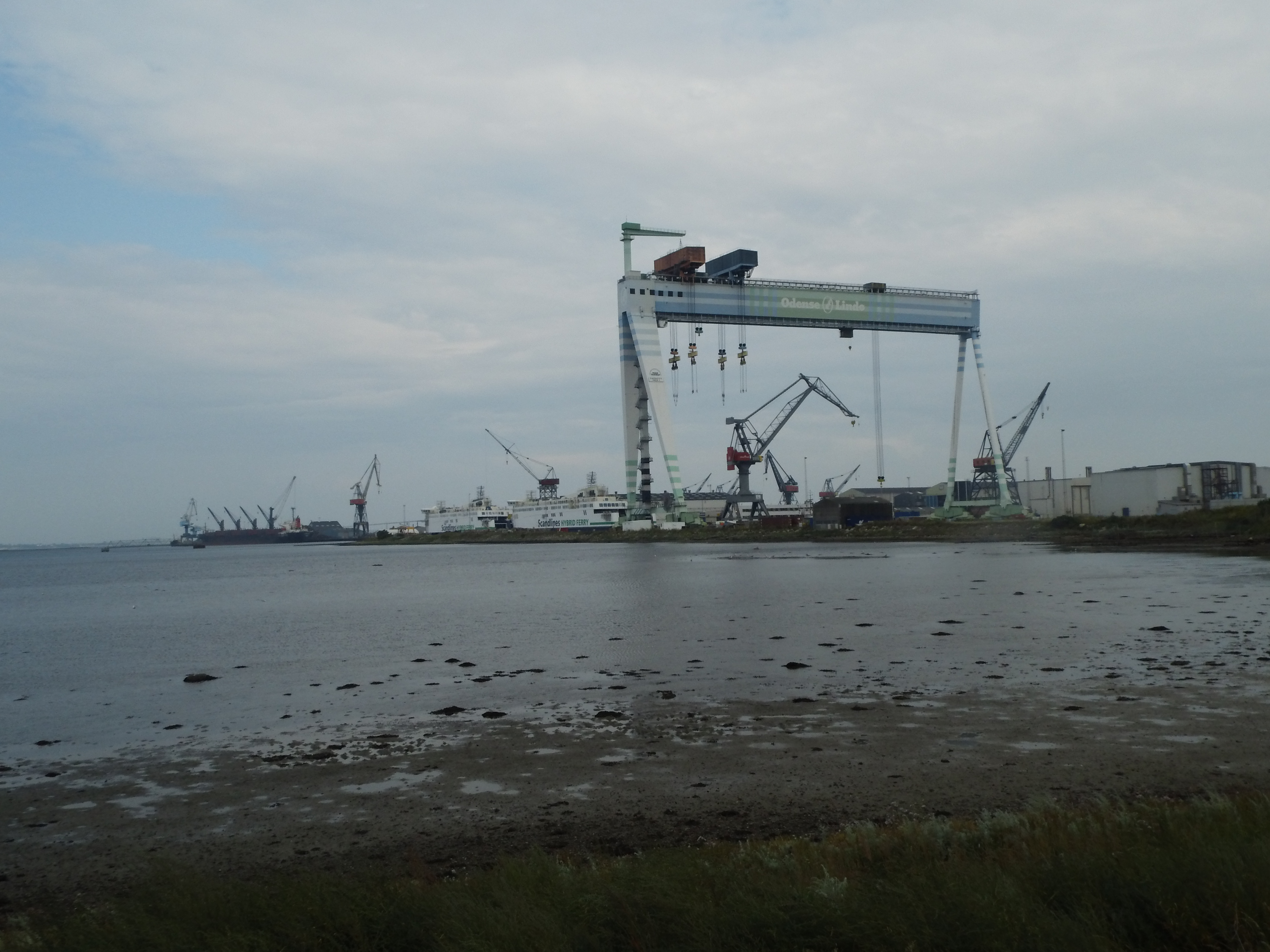 Odense Lindø Shipyard in 2015.